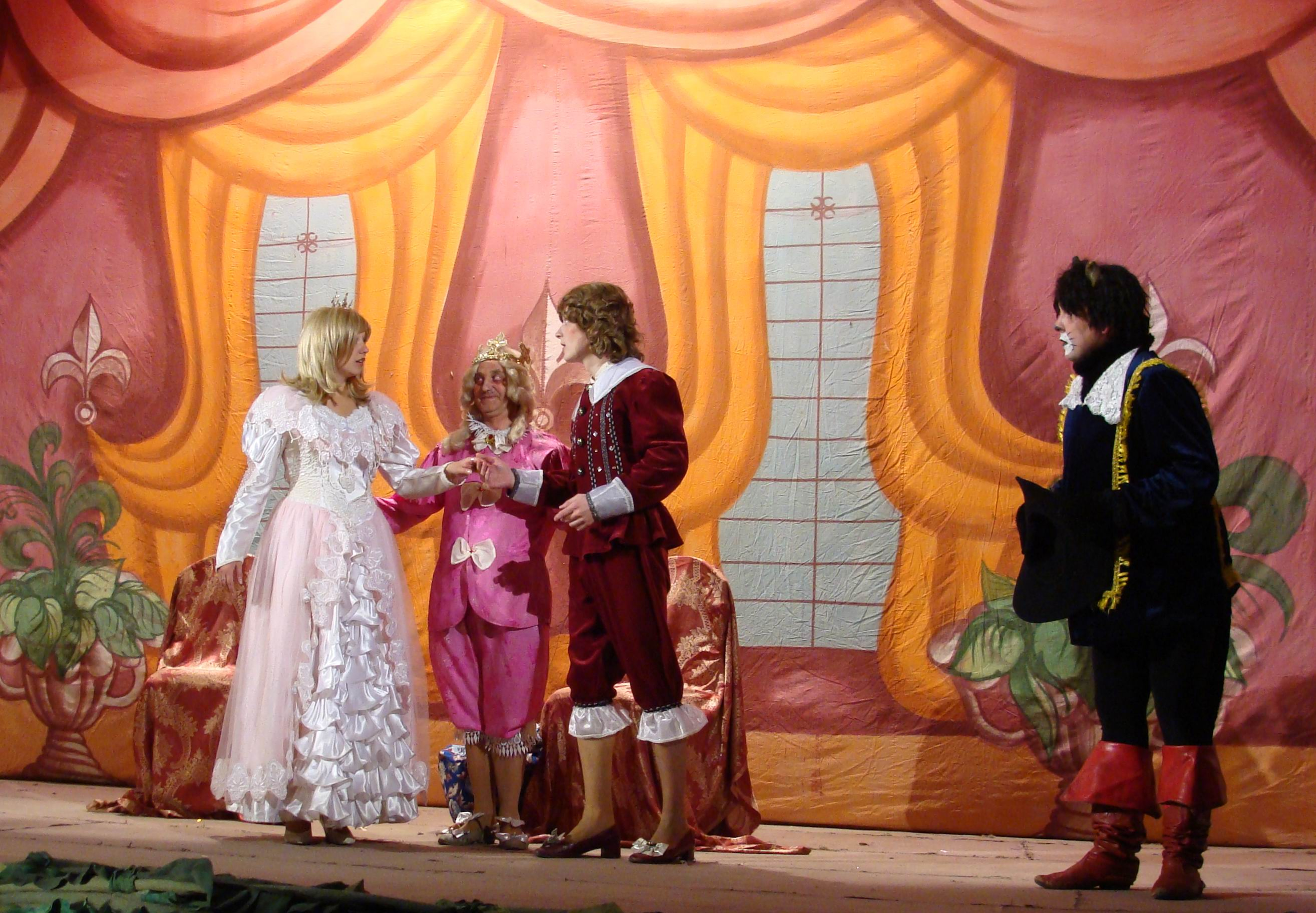 Theatre